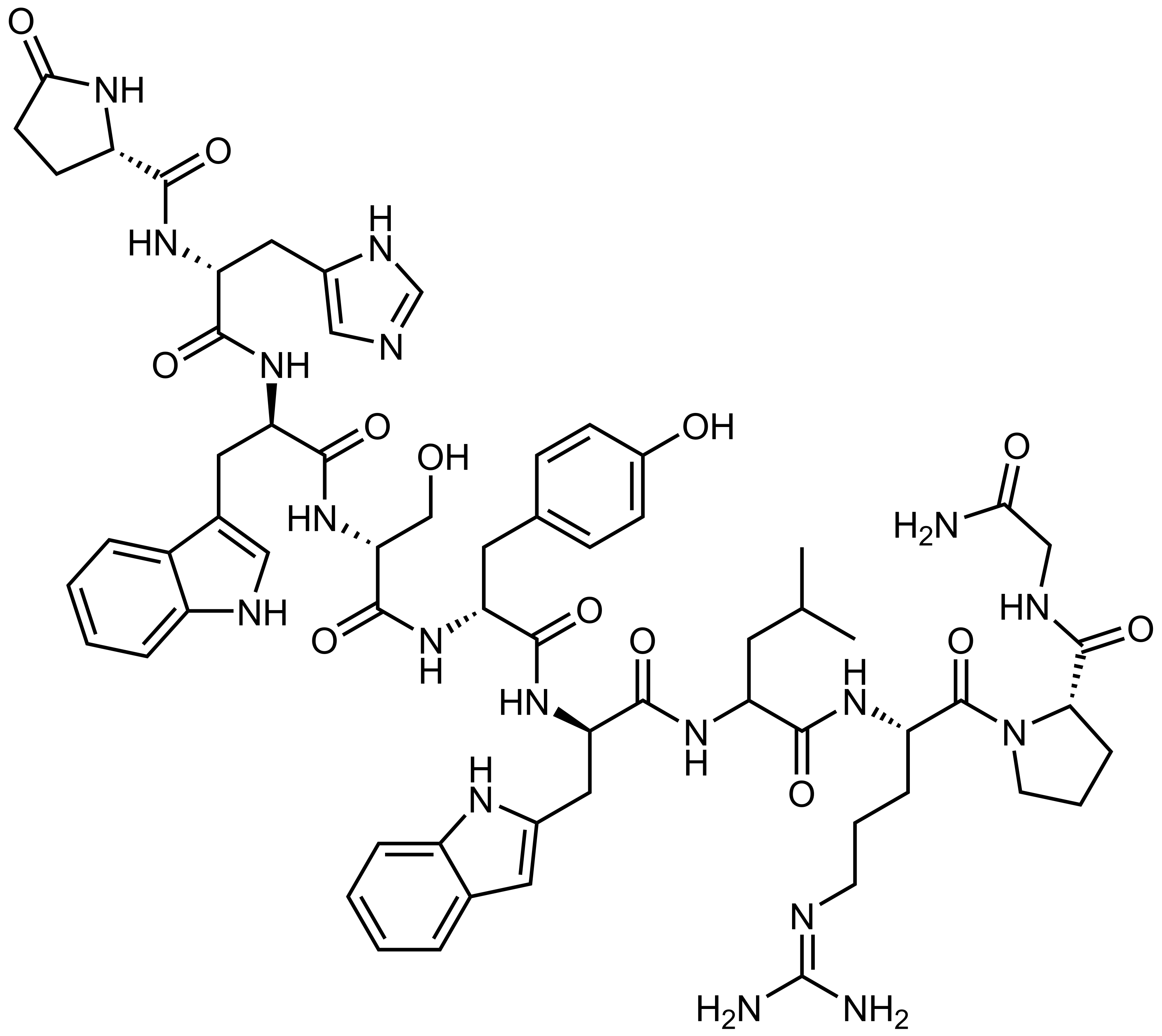 triptorelin peptide with stereo